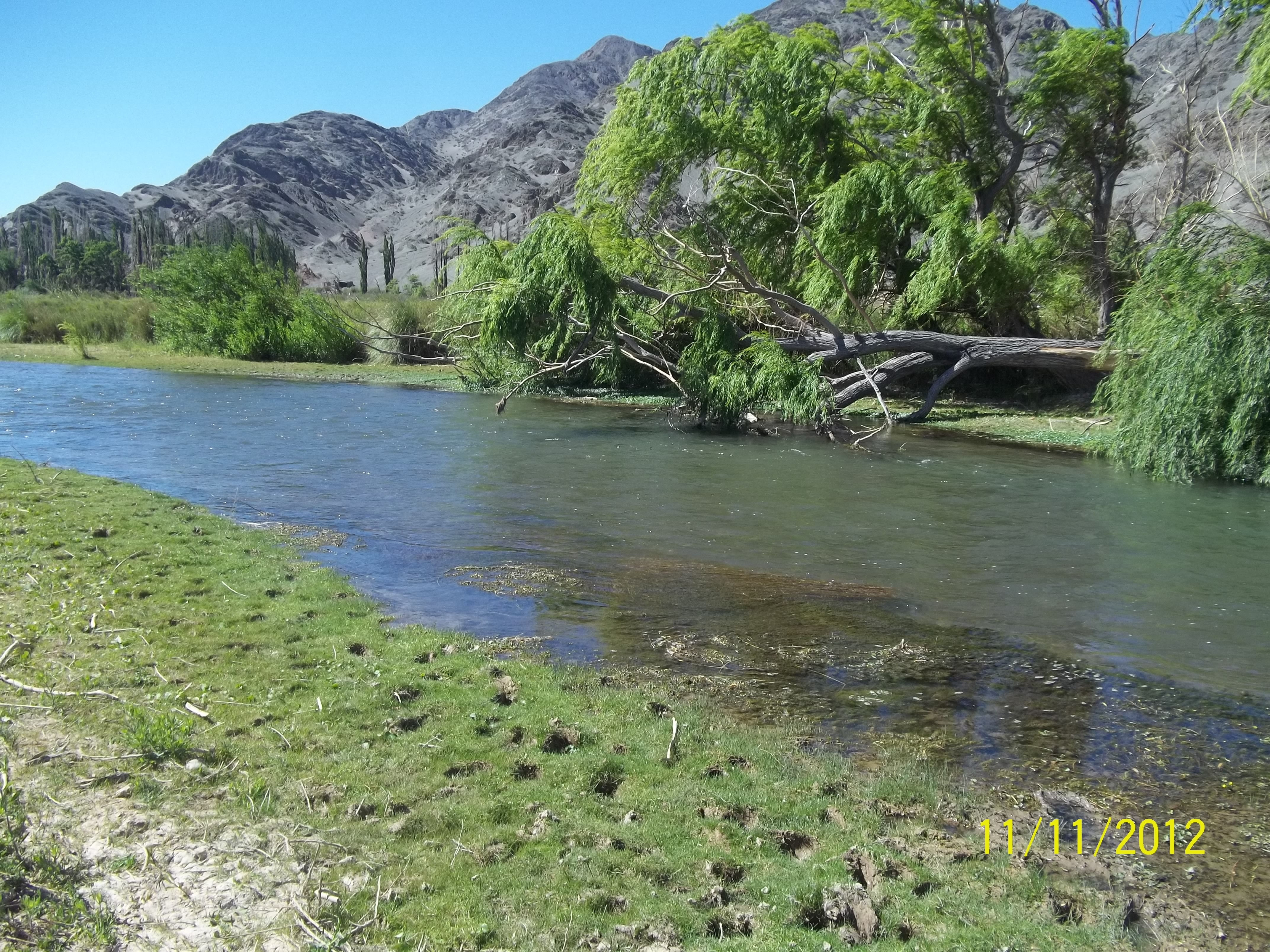 Castaño River